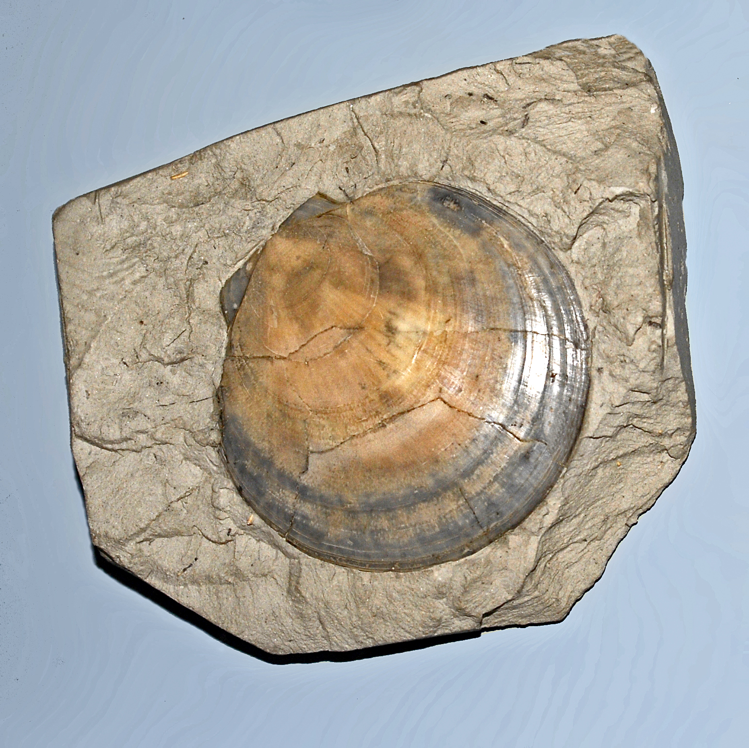 Fossil shells of Amusium cristatum, on display at the Museo Paleontologico Giulio Maini, Ovada